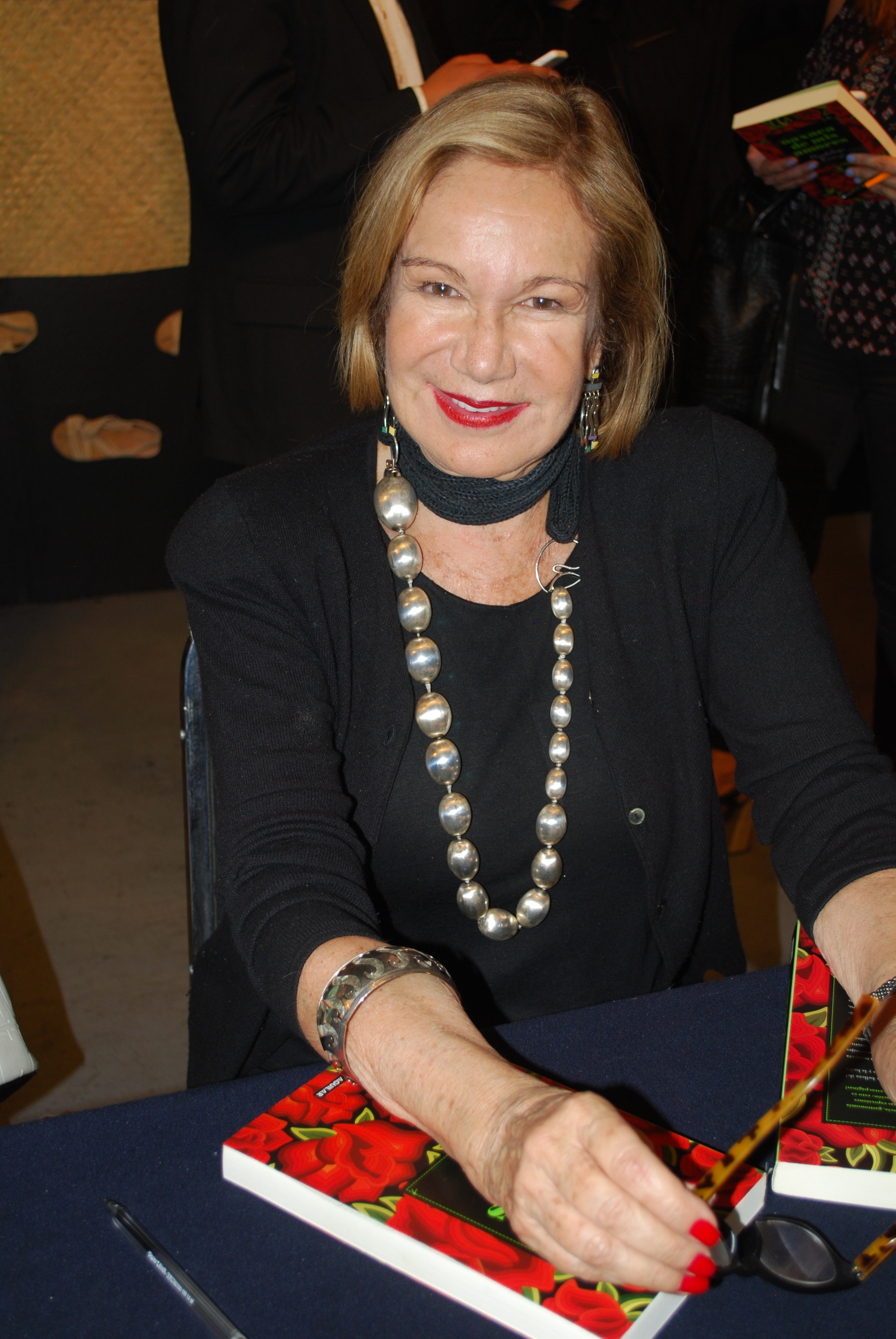 Guadalupe Loaeza at the presentation of the book Oaxaca de mis amores at the Museo Nacional de Culturas Populares